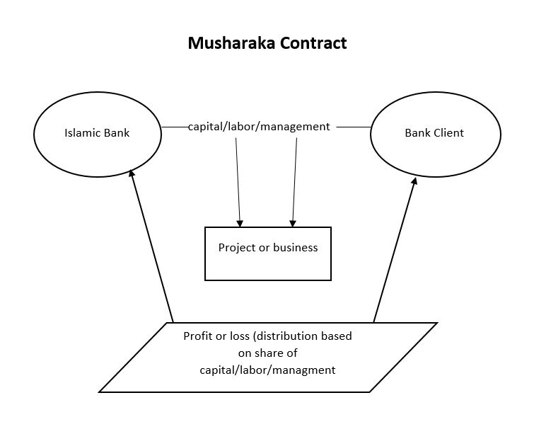 How a musharaka contract works